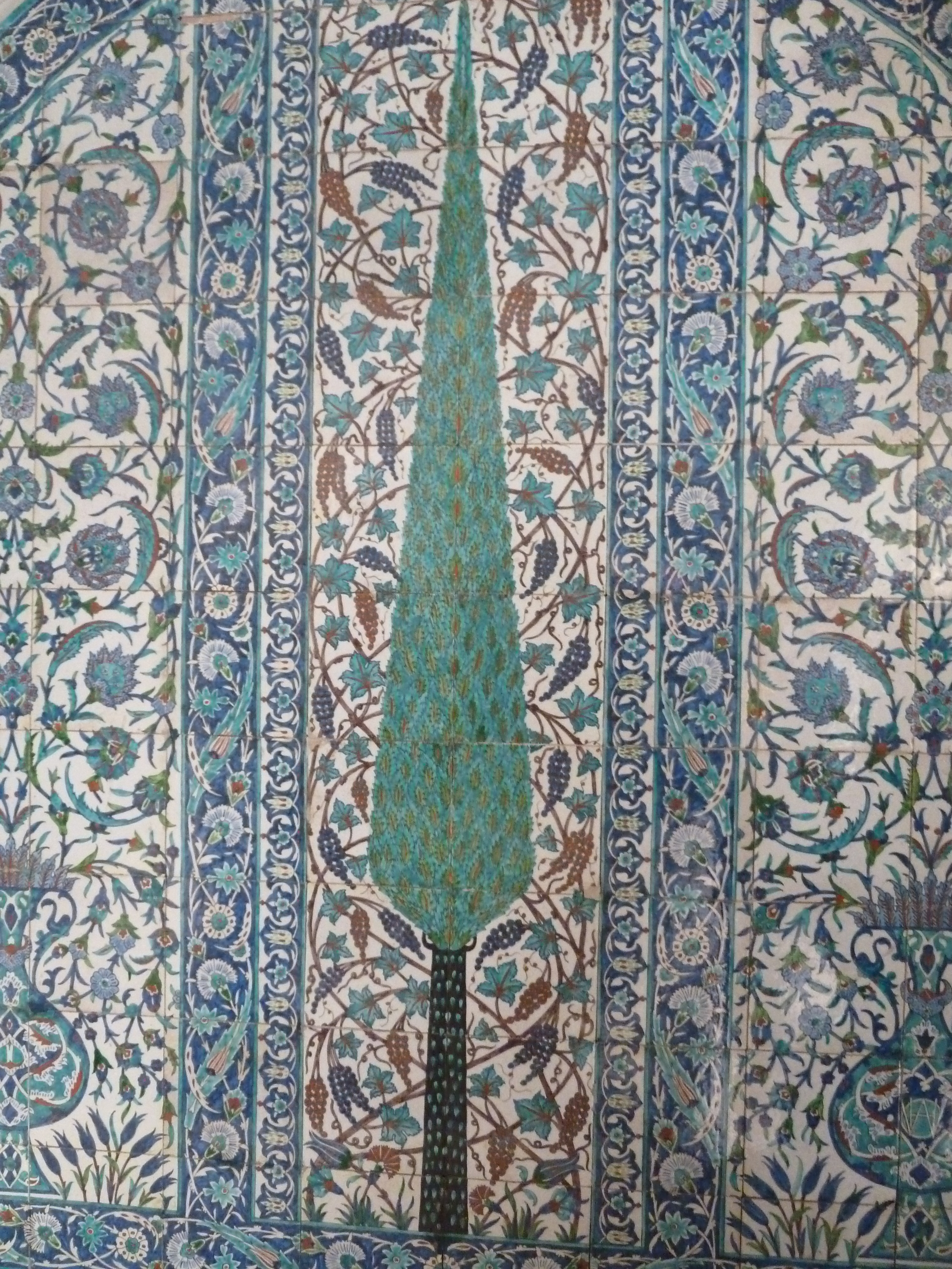 Armenian Ceramics, designed and executed by ceramicist David Ohannessian, at the Armenian Room, at the Jerusalem House of Quality , Jerusalem